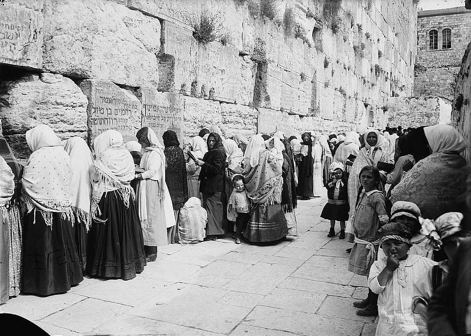 The Temple area. Jerusalem. The western wall of the Temple area. (The Jews' Wailing Wall). CALL NUMBER: LC-M32- P-46[P&P] REPRODUCTION NUMBER: LC-DIG-matpc-05899 (digital file from original photo) MEDIUM: 1 negative : glass, dry plate ; 5 x 7 in.